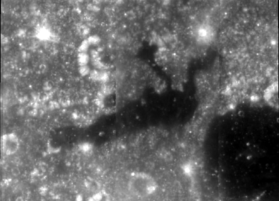 Lacus Perseverantiae. Mosaic of Clementine images.